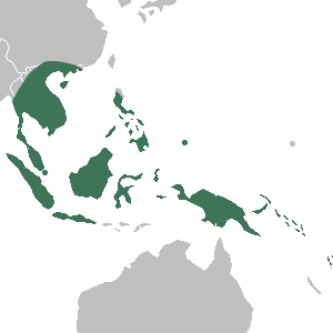 Neuwiedia distribution map